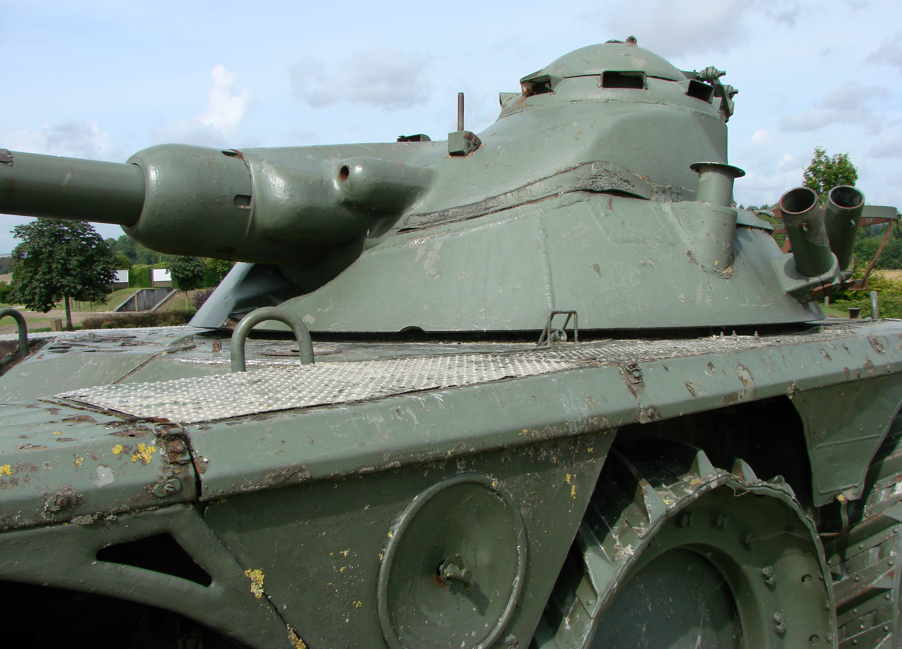 Panhard EBR 75; detail.